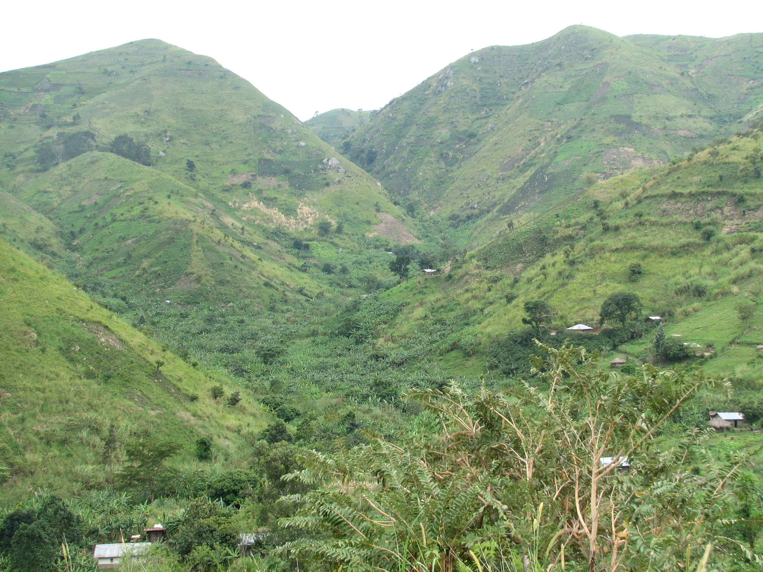 The terraced steep hillsides of the lower slopes of the Rwenzori Mountain range.